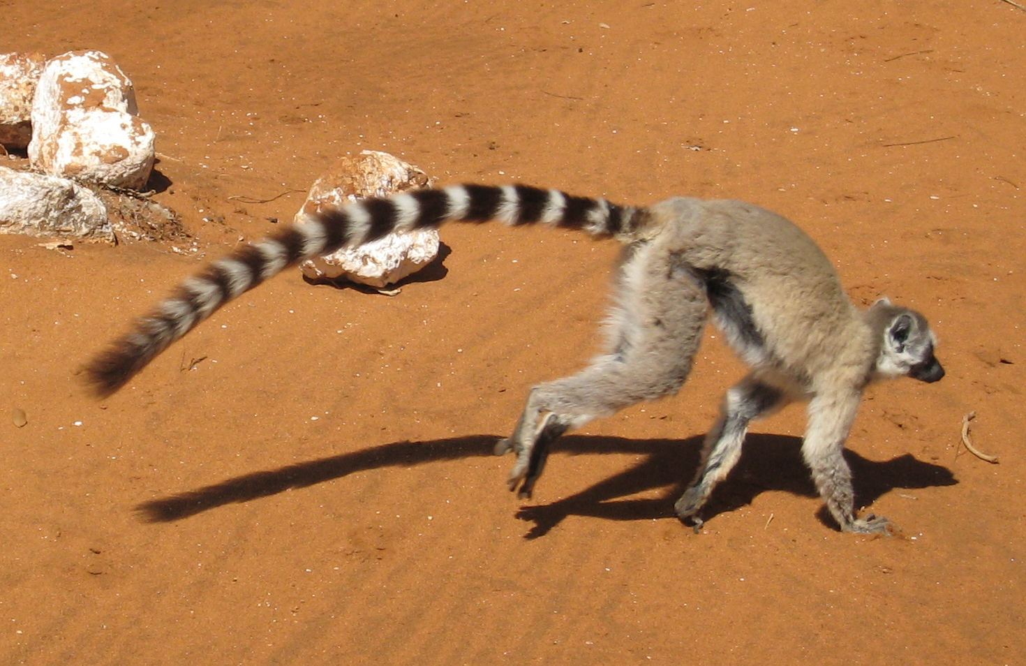 Lemur catta running. Note that the tail is longer than the rest of the body. Photo taken at Berenty Private Reserve in Madagascar.